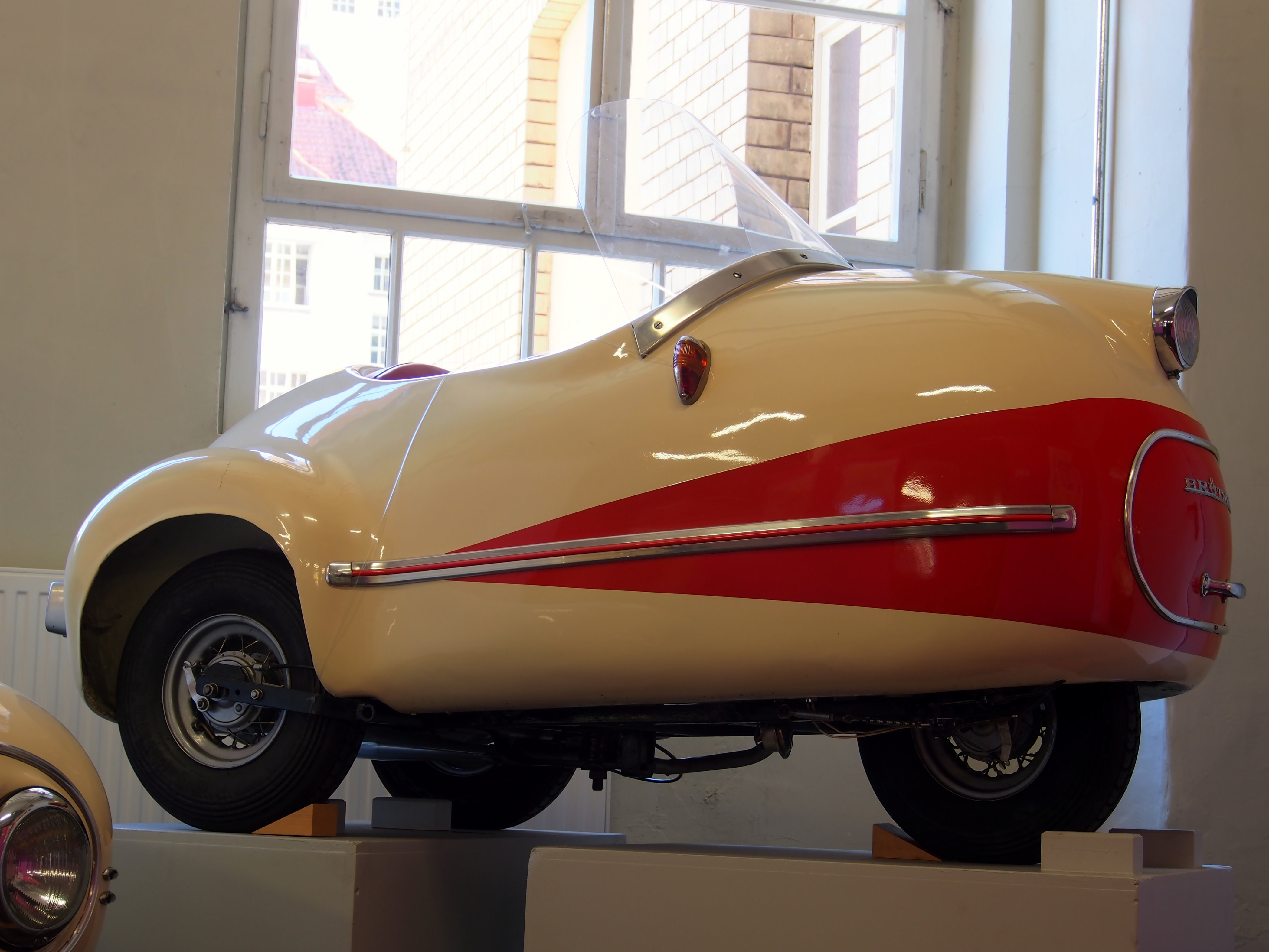 1957 Brütsch Mopetta, Rollende Einkaufstasche cabine.